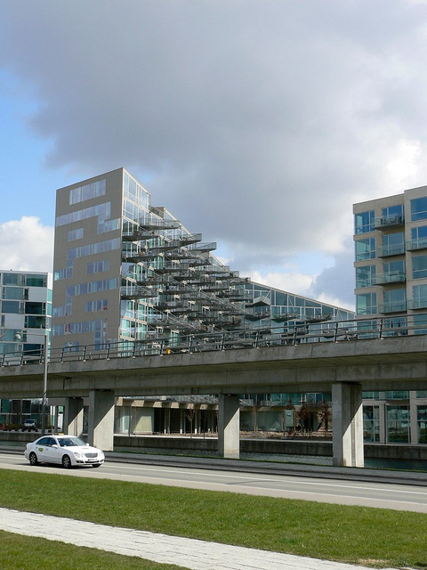 VM Houses in Ørestad in Copenhagen, Denmark. Designed by PLOT, a defunct architectural firm founded by Bjarke Ingels and Julien de Smedt.